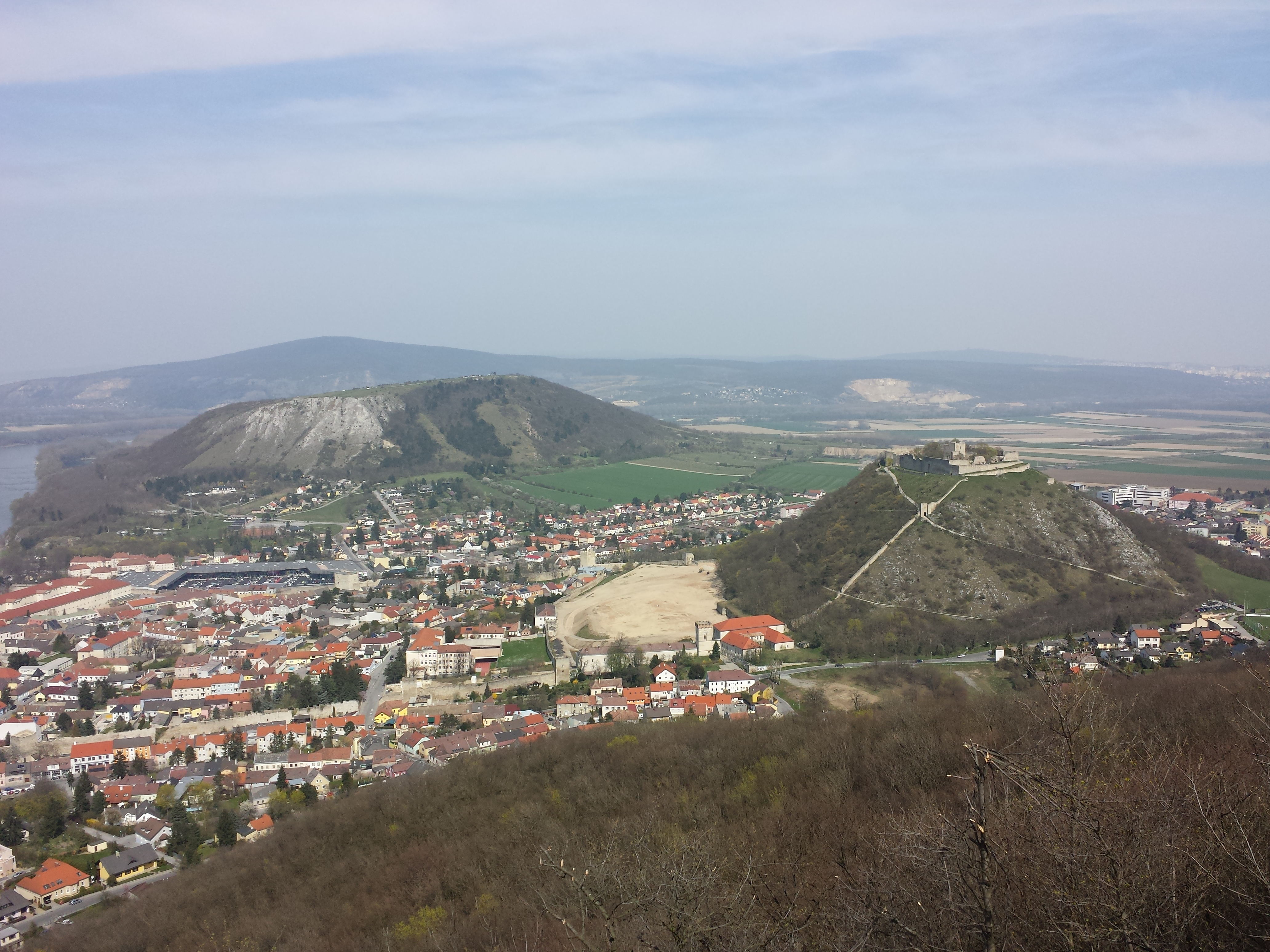 Hundsheimer Berge, district Bruck an der Leitha, Lower Austria - ca. 400 m a.s.l. View from Hundsheimer Berg towards Hainburg and Schlossberg. Behind Braunsberg and Devínska Kobyla. At the right in background Bratislava.